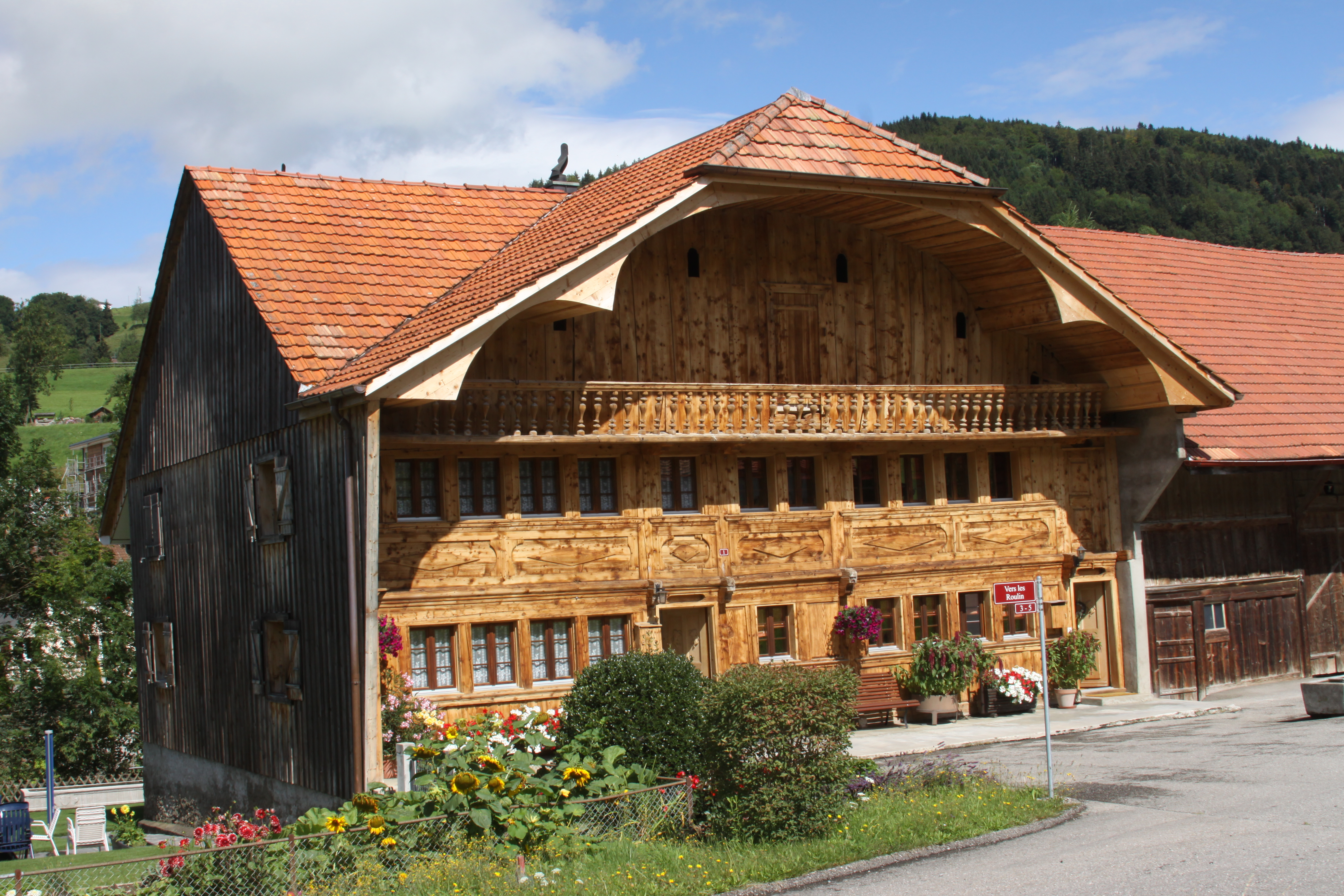 Farmhouse, Vers les Roulin 52, La Roche